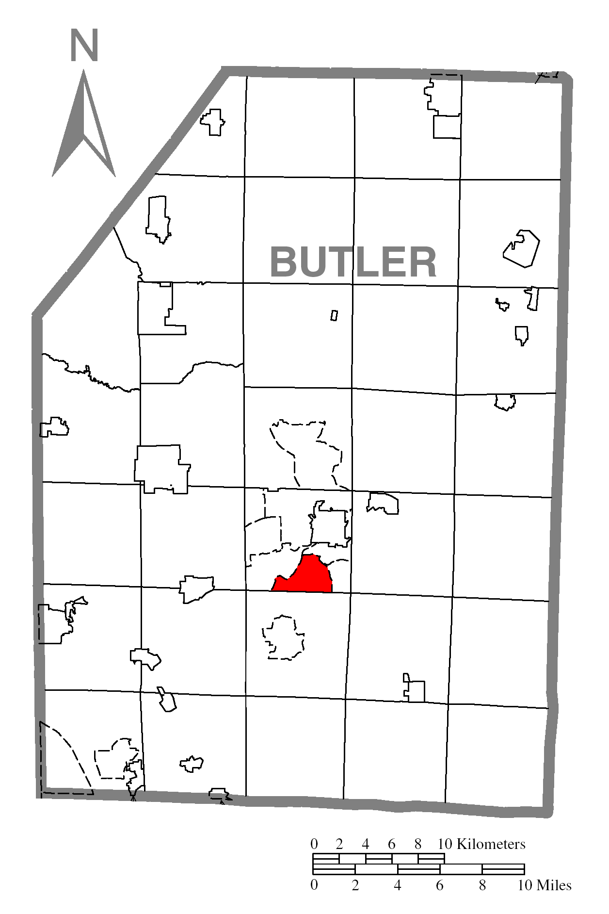 A map of Butler County showing Oak Hills, Pennsylvania (alternate) highlighted on the map.